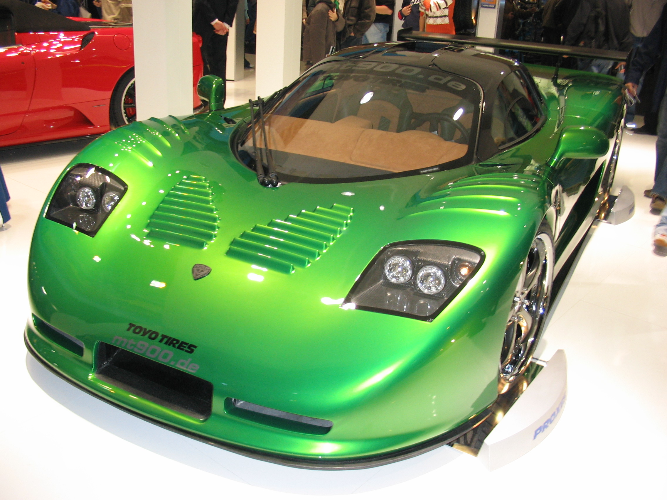 Mosler MT900 at the Motor Show Essen 2005